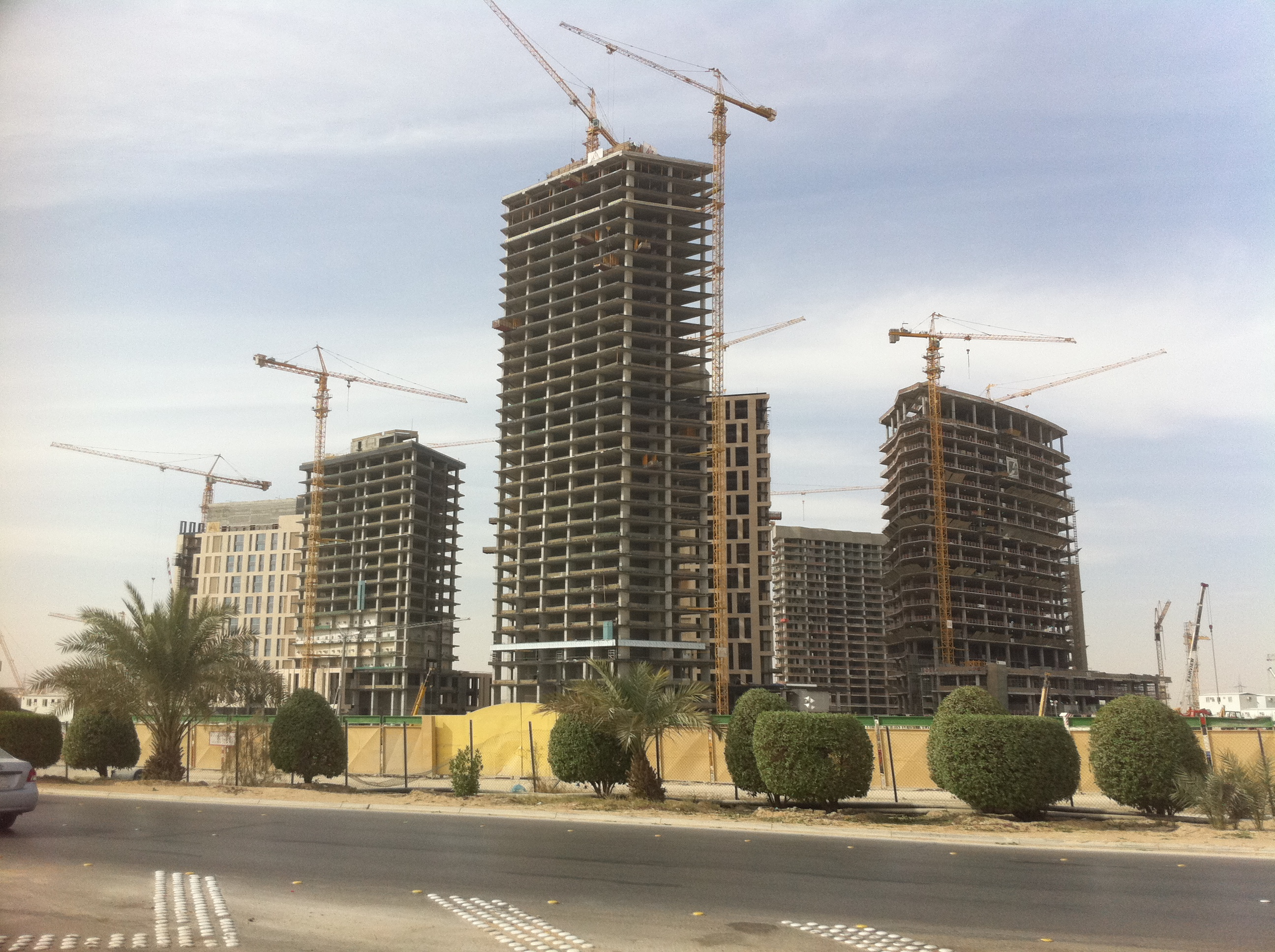 The king Abdullah Financial Distric Riyadh Saudi Arabia